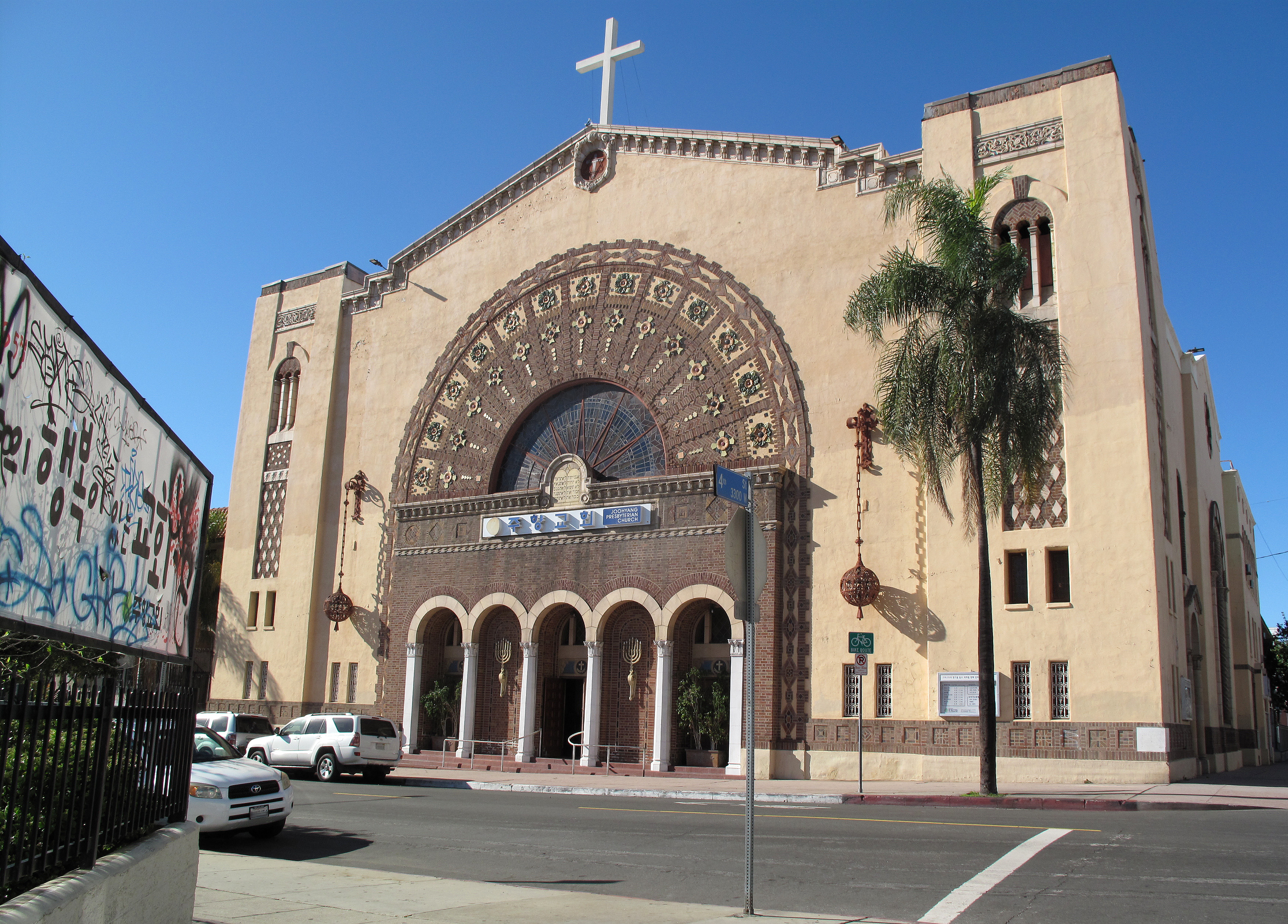 Korean Philadelphia Presbyterian Church, formerly Temple Sinai East, 401-407 S. New Hampshire Ave., in Koreatown neighborhood of Los Angeles. Los Angeles Historic-Cultural Monument #91.